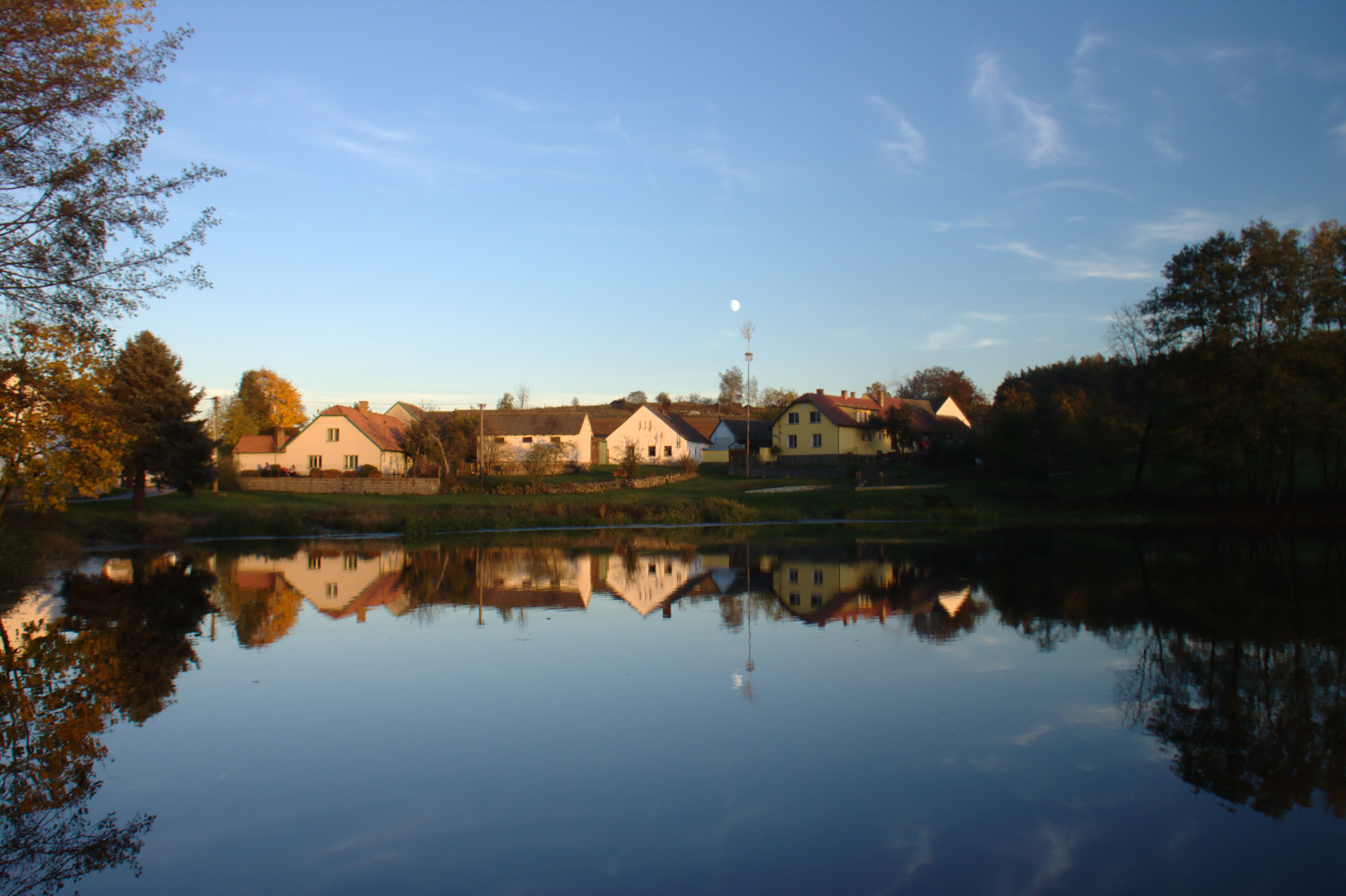 A pond with some houses in the village of Trkov, Central Bohemia, CZ